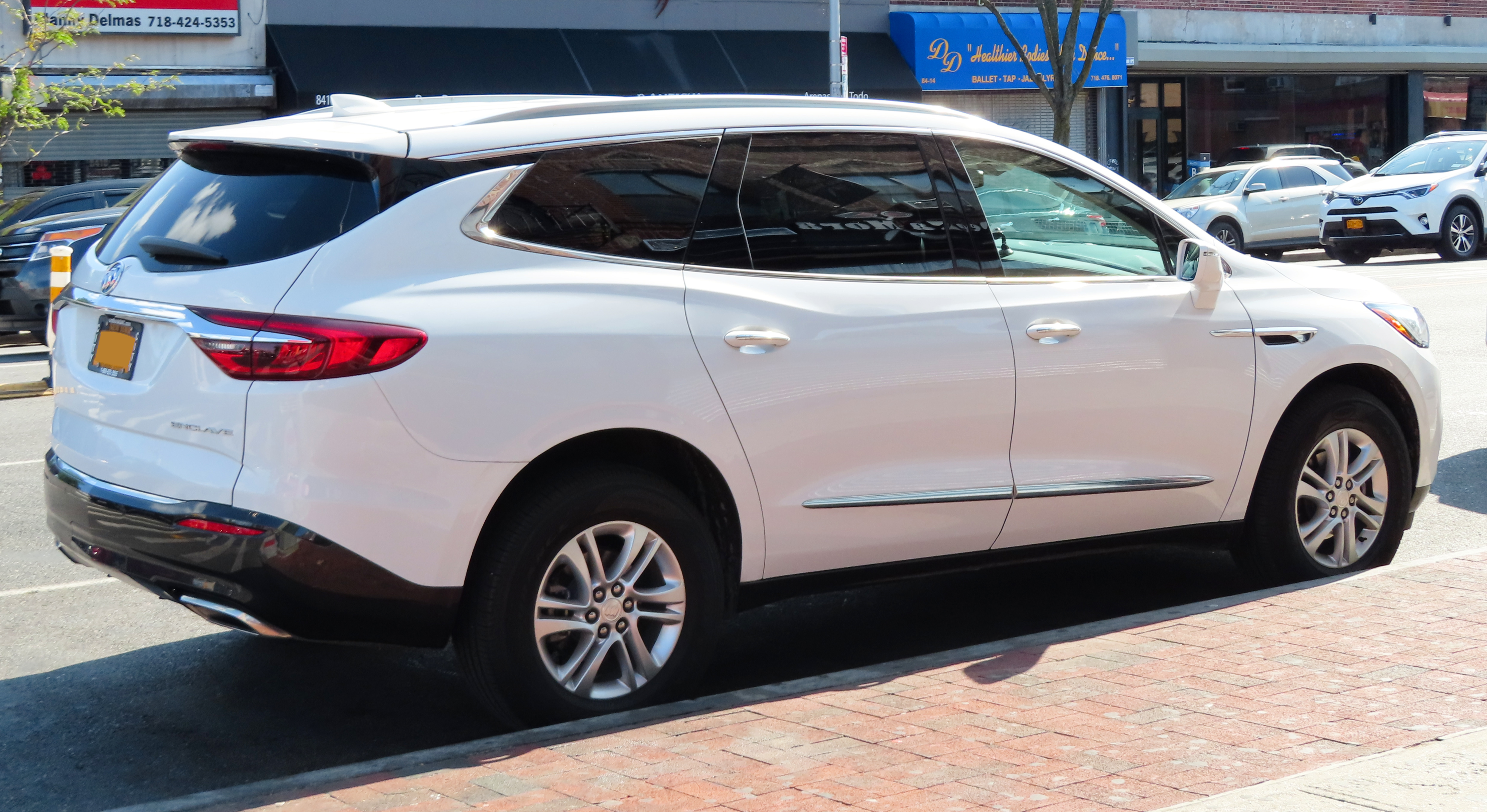 A 2019 Buick Enclave photographed in Jackson Heights, Queens, New York, USA